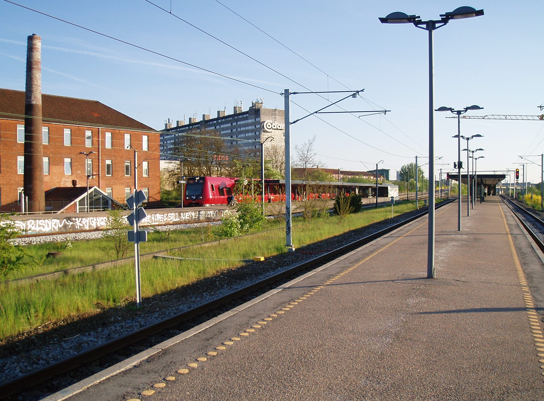 Copenhagen S-train station Ryparken seen from tracks 11/12 in sourthern direction with 4. generation S-train in track 1